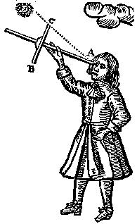 Jacob's staff used in navigation to obtain the altitude of the sun, which gives the latitude (17th century)